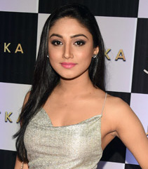 Donal Bisht graces the launch of Jhatka club